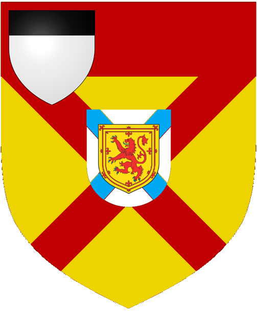 Shield of arms of the Bruce baronets of Stenhouse